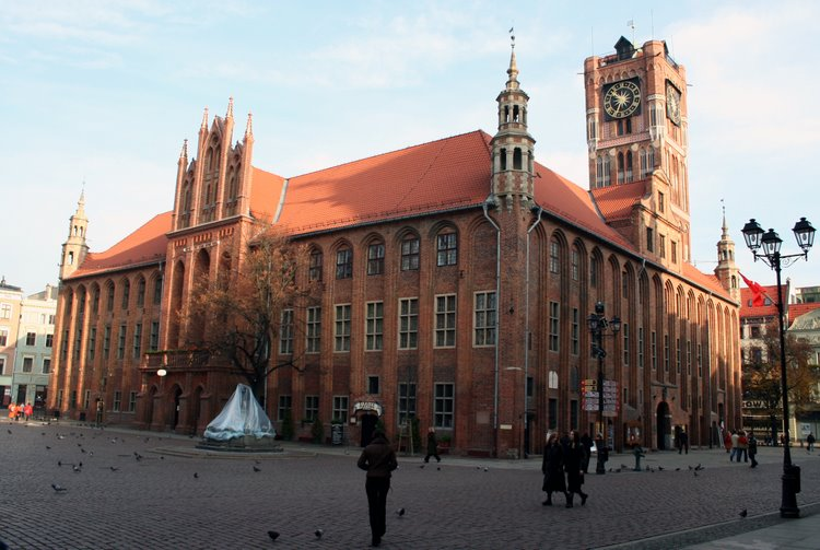 Torun City Hall.